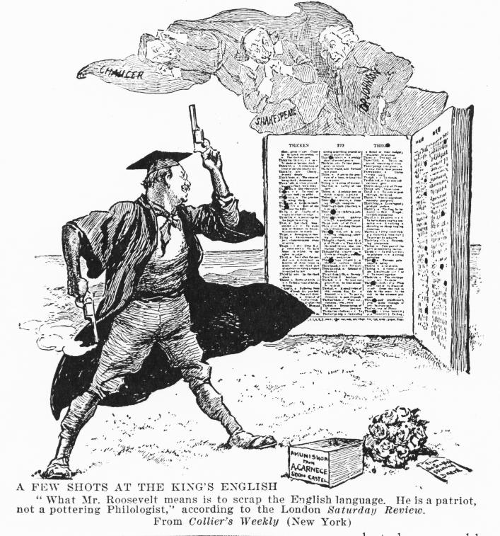 US cartoon 1906 about Roosevelt's simplified spelling campaign sponsored by Carnegie